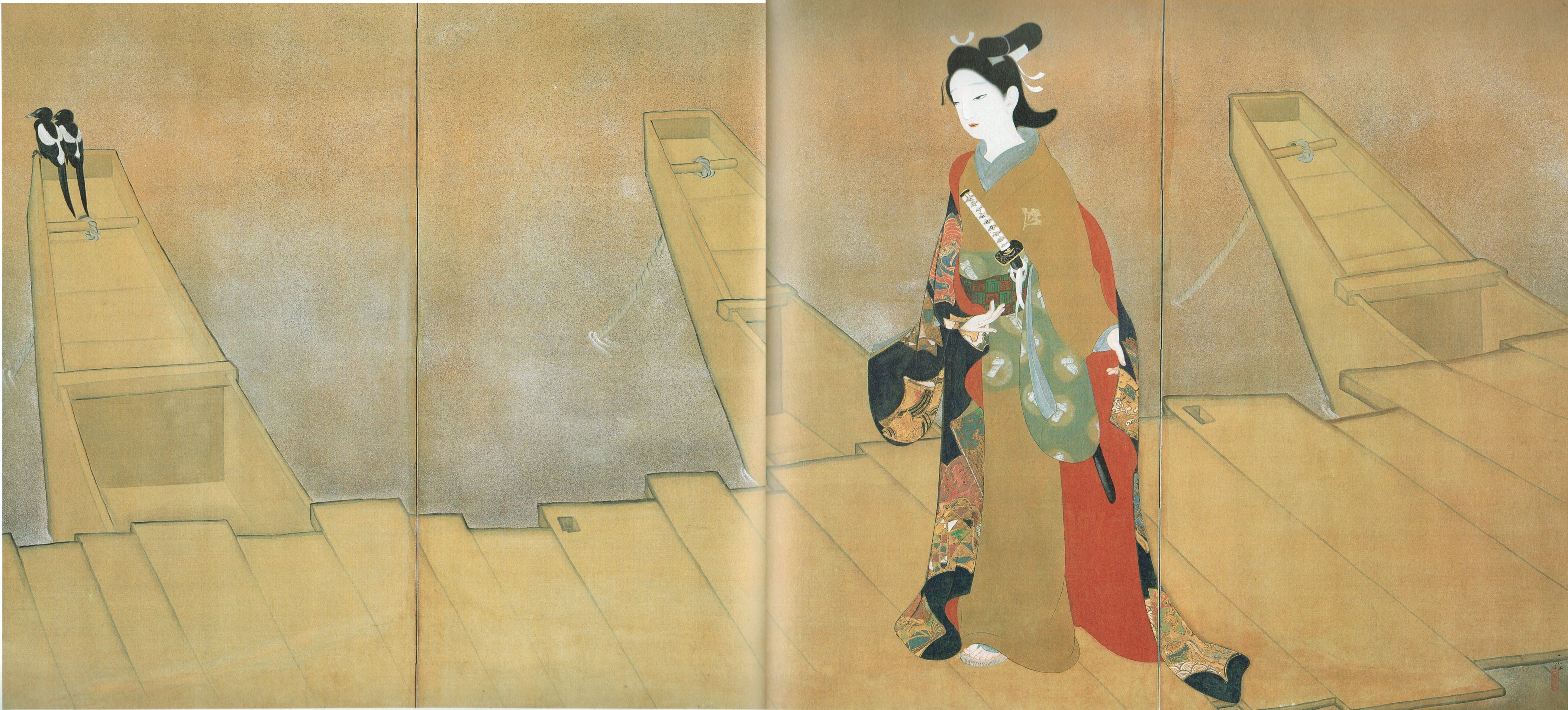 Walking on a Bridge by Matsumoto Ichiyō (1893-1952), pair of two-panel screens, c. 1915-1920, Honolulu Museum of Art